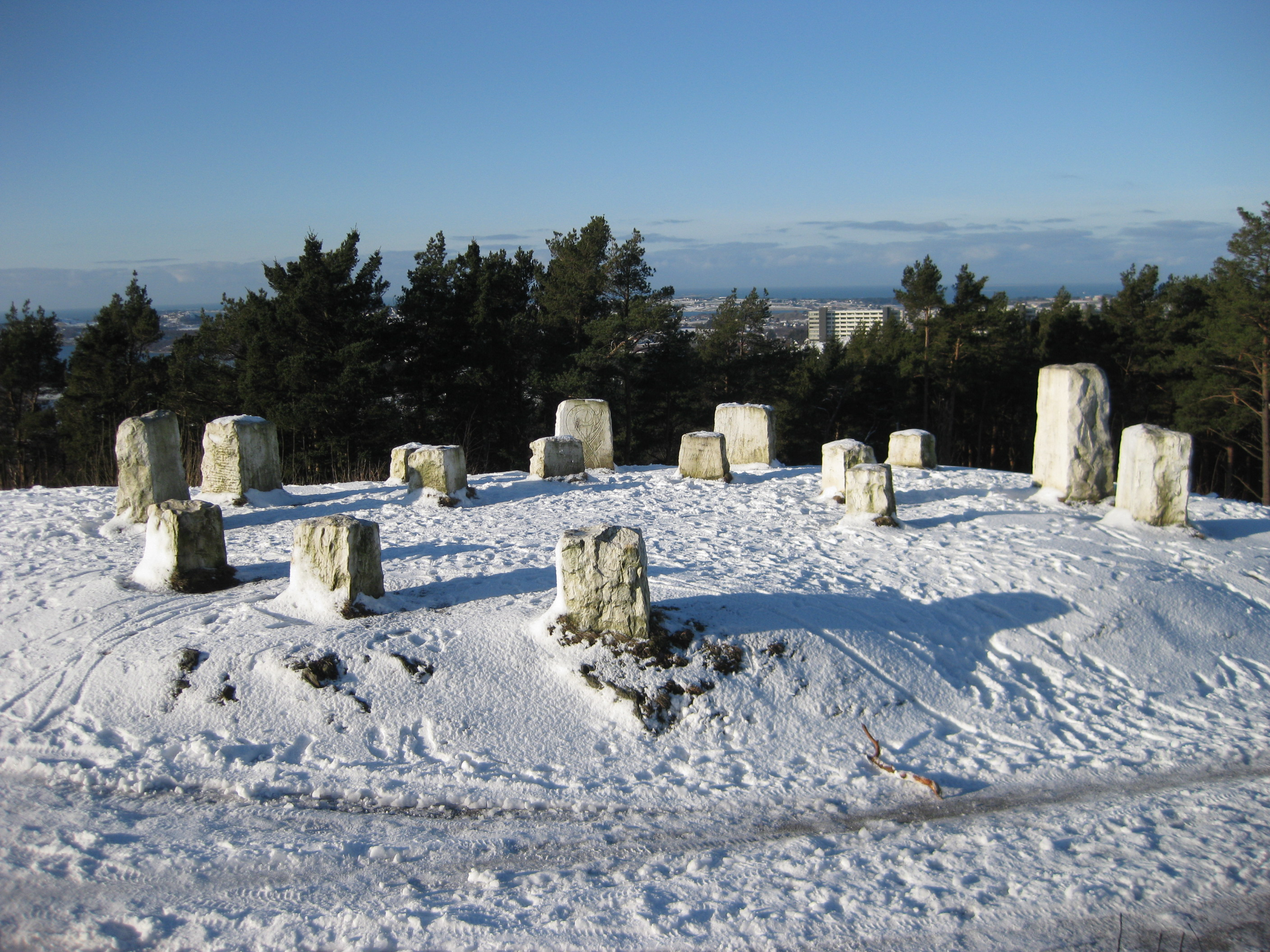 Monumental stones from the Harald's tower Ullandhaug, Stavanger, Norway